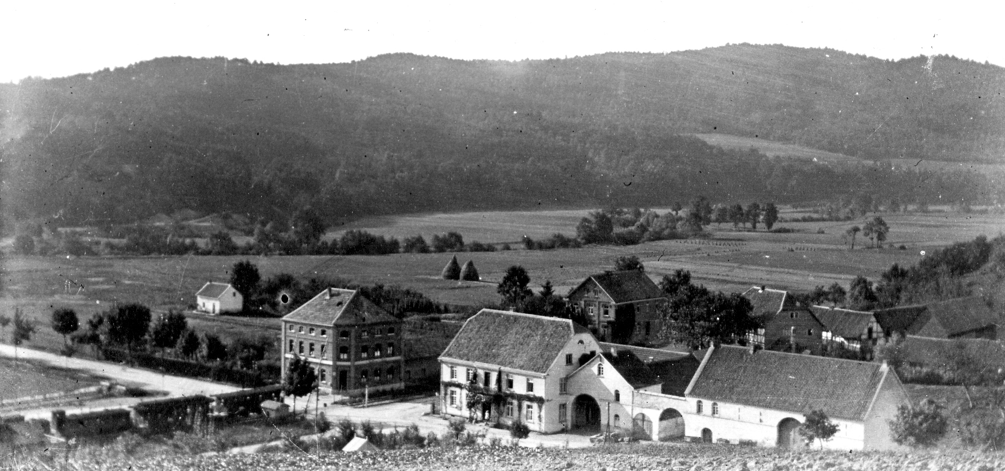 picture of Lüderich